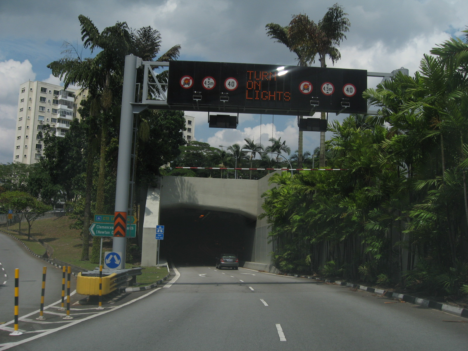 Cairnhill Circle entrance into Kampong Java Tunnel, Central Expressway, Singapore.